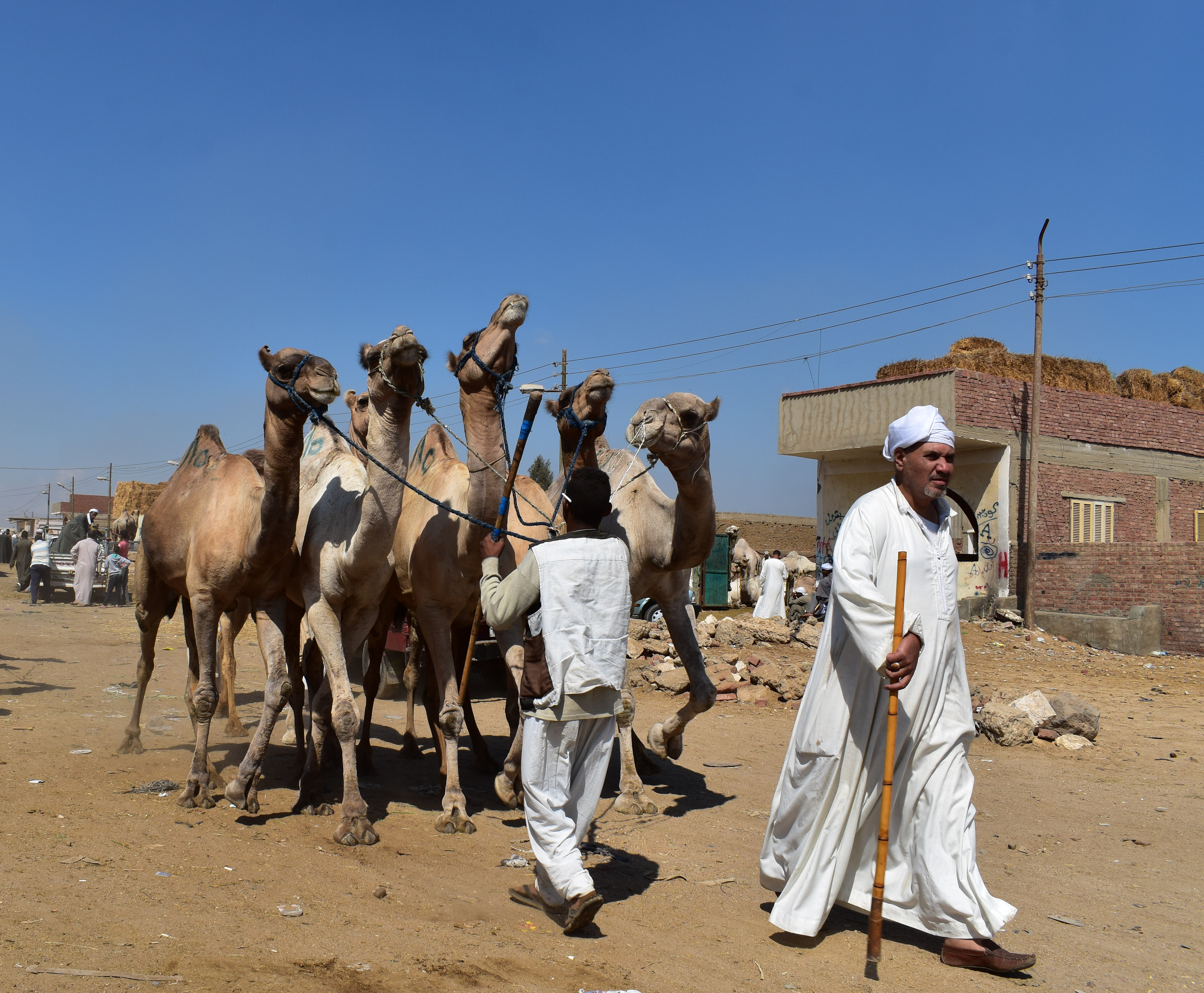 Birqash Camel Market in 2017, photo by Hatem Moushir This is an image of "African people at work" from Egypt